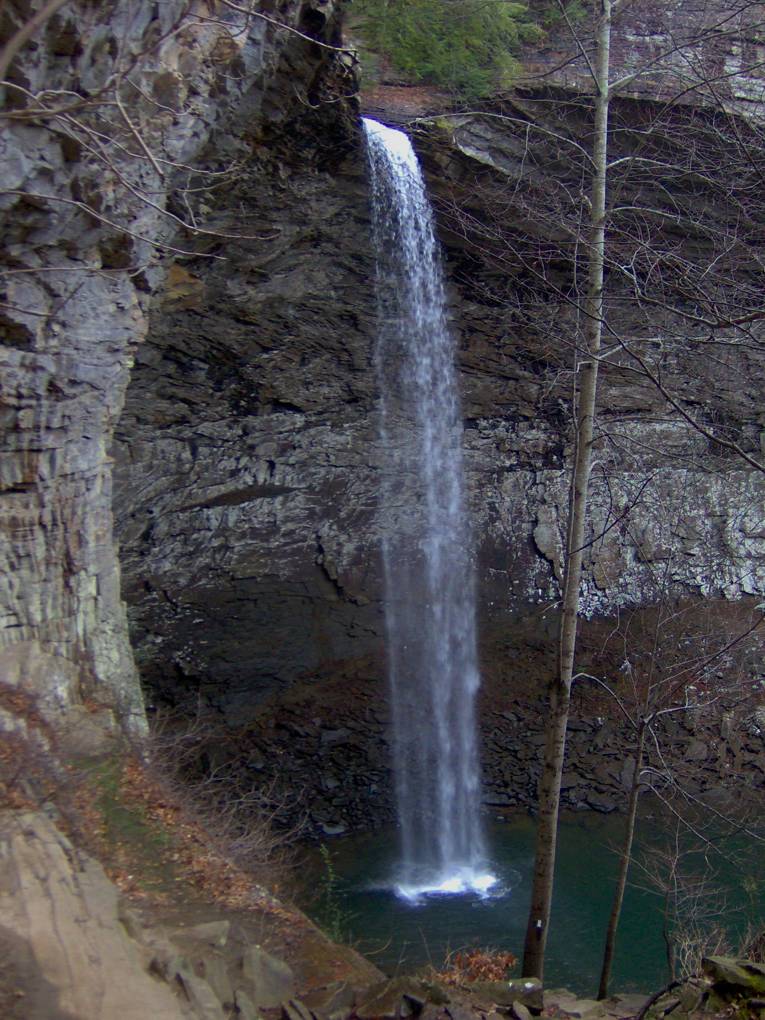 Ozone Falls, looking east from the trail that descends into the gorge.